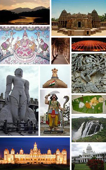 A collage made by collection of images from commons or eng wiki only